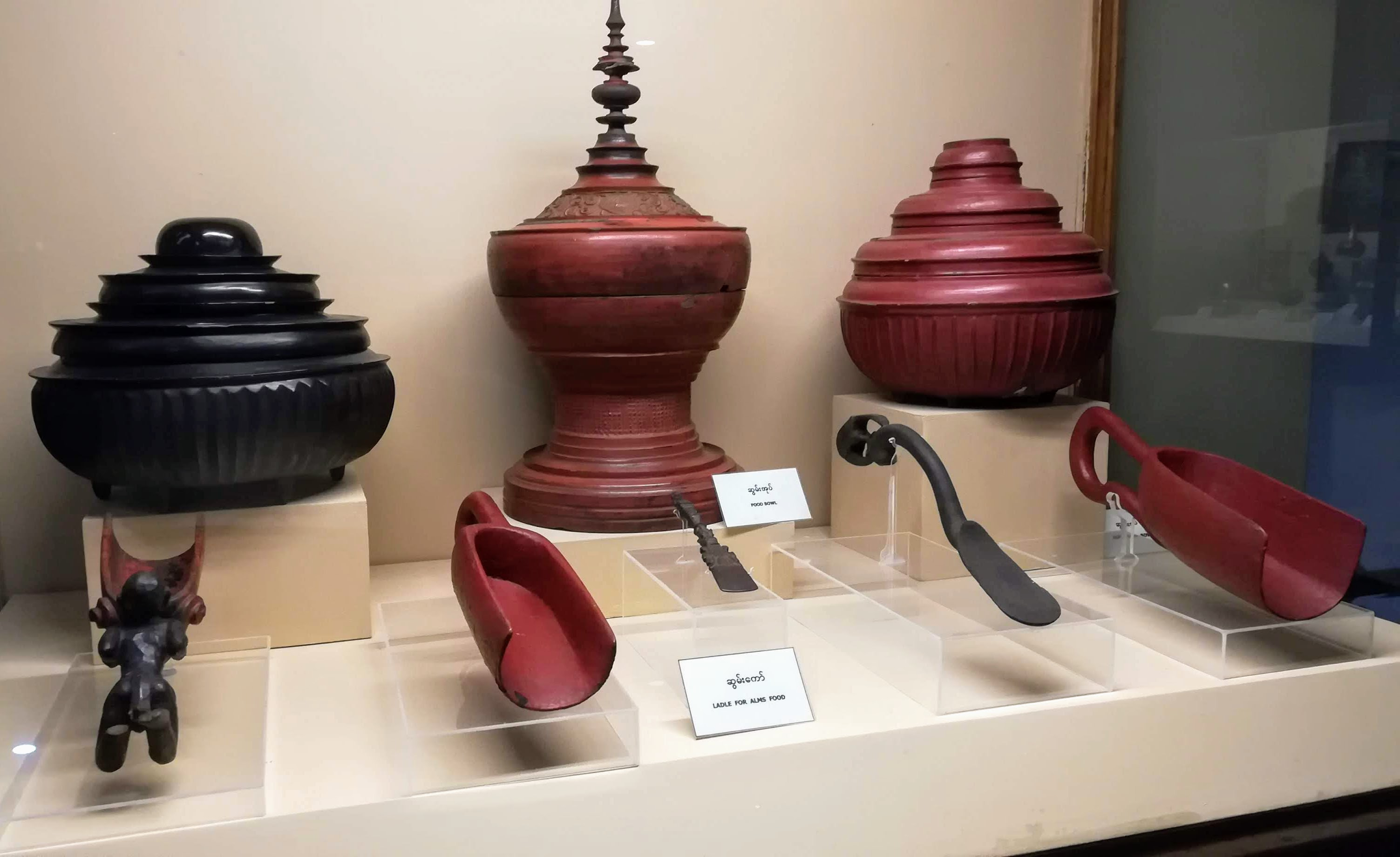 Items used for food for monks at the National Museum Yangon